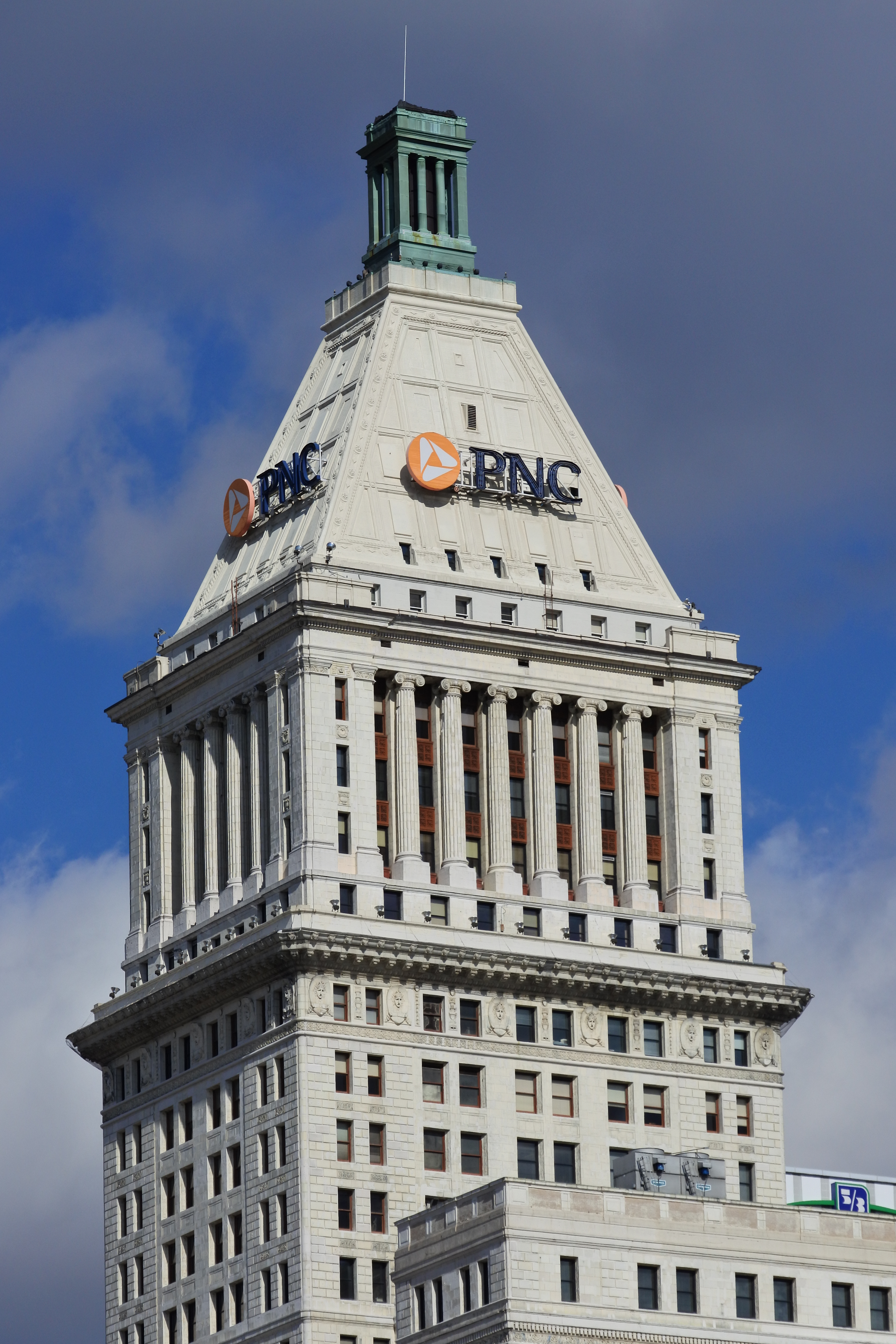 Close-up view of the PNC Tower in Cincinnati, Ohio